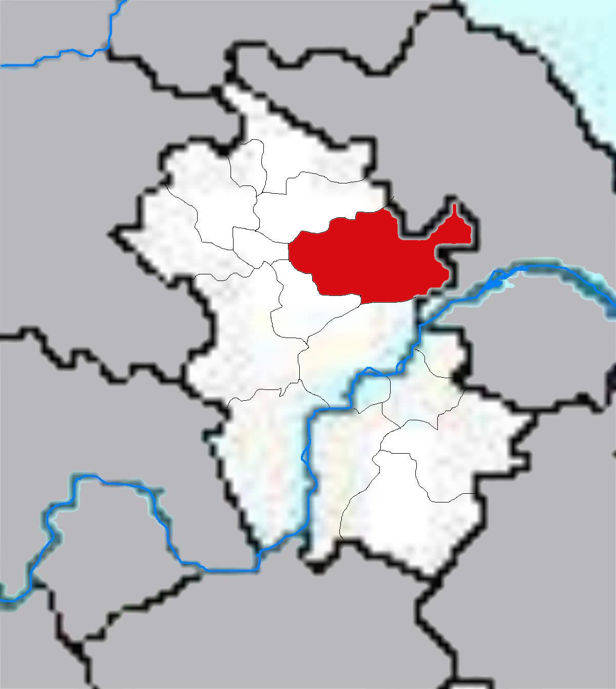 Maps of Anhui Province of China